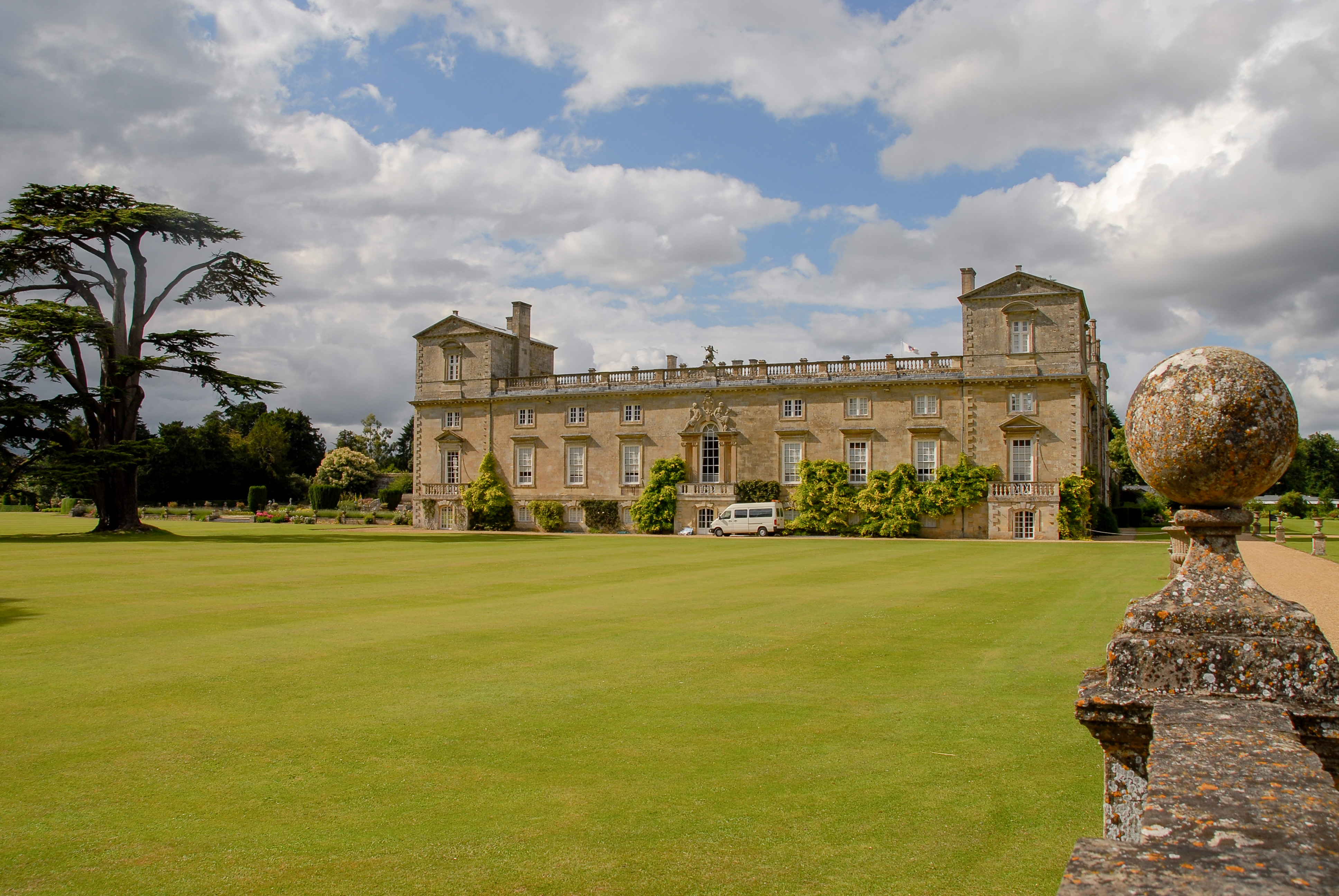 Wilton House south façade Wikidata has entry Q1429120 with data related to this building.